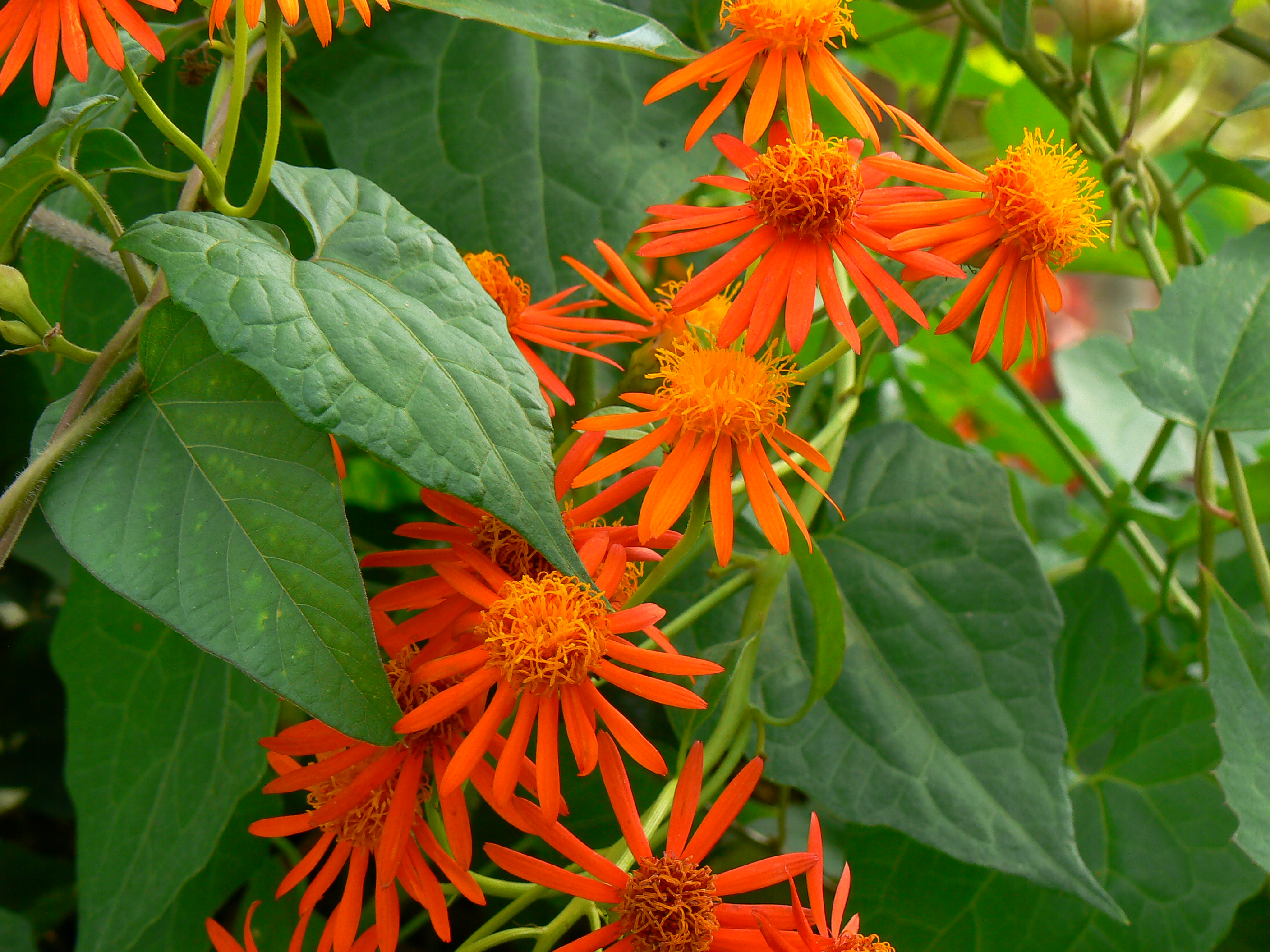 Common name: Mexican Flame Vine, Orange Glow Vine, Orange-Flowered Groundsel Botanical name: Senecio confusus - [ (sen-NEESH-shee-oh) latin form of old man refers to hairy parts of flowers; (kon-FEW-sus) uncertain ] Synonyms: Pseudogynoxus confusus, Pseudogynoxus chenopodiodes Family: Asteraceae or alternatively Compositeae (aster, daisy, or sunflower family) - [ (ass-ter-AY-see-ay) the aster (daisy) family; formerly Compositae ] Origin: Mexico Mexican flame vine is a woody tropical vine with the enchanting summertime habit of covering itself in brilliant daisy-like flowers. The bright orange blossoms are about 1 inch in diameter and are borne in small clusters. As they age the flowers change from orange to almost red. They are followed by fruiting structures that resemble smaller versions of the dandelion's puffy seed heads. This vine has thick evergreen leaves that are shaped like arrowheads and serrated on the edges. They are arranged alternately on the vine and are deep green in color providing a handsome background for the firey orange flowers. The scientific name of this plant Senecio confusus translates to "confused old man" referring, probably, to this vine's rampant habit of growth. If not provided support, Mexican flame vine grows this way and that in a confusion of stems that piles up to eventually form a sprawling shrub. Courtesy: - Flowers of India - TopTropicals - Dave's Garden Note: Information has not been verified and may not be reliable; please check for any inaccuracy.